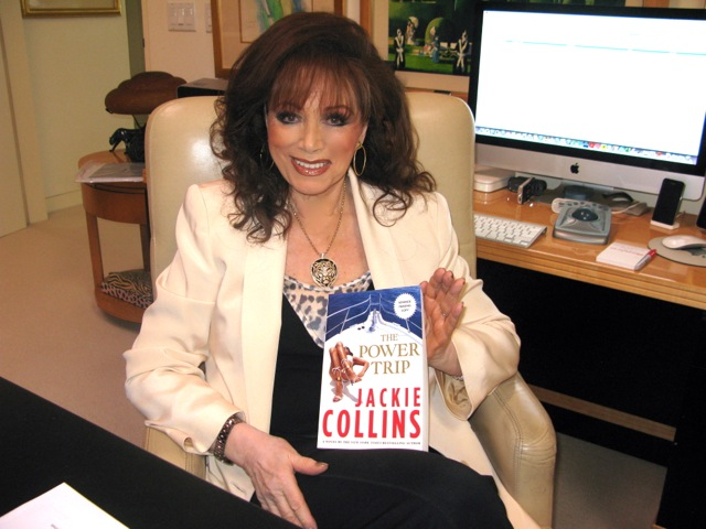 Jackie Collins releases The Power Trip - 2013